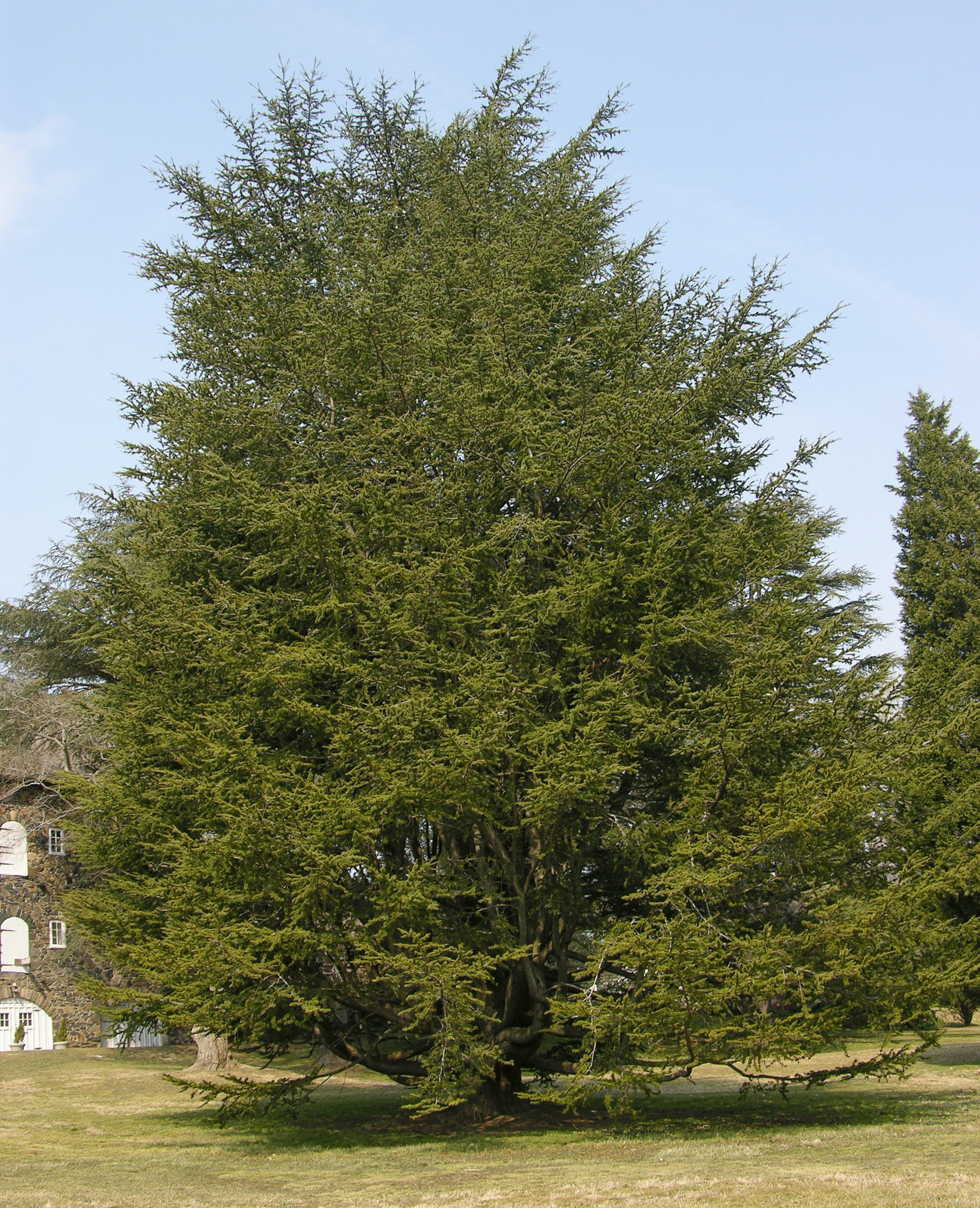 Photograph of the Atlas Cedaren (Cedrus atlantica en ). Photo taken at the Tyler Arboretum where it was identified.